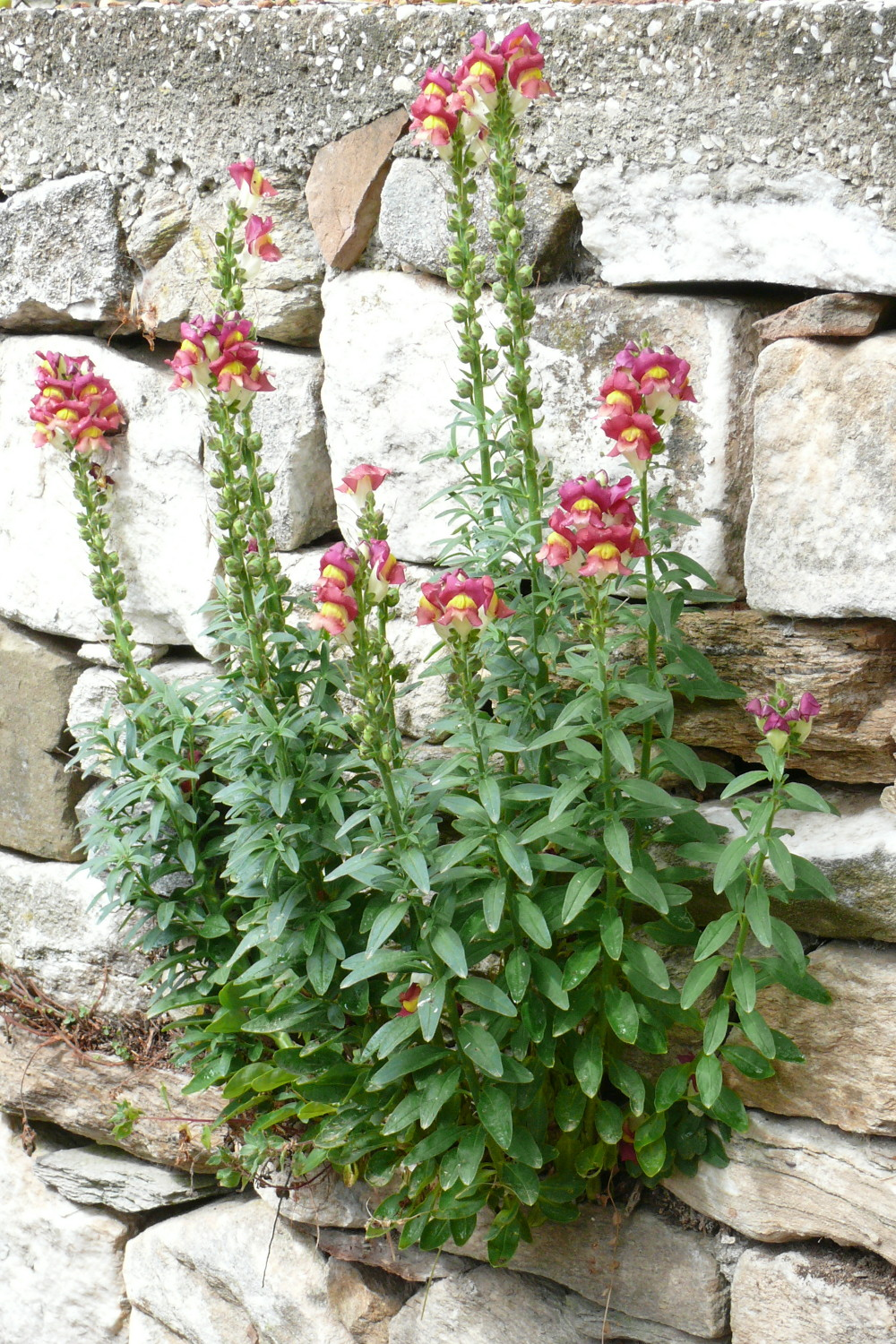 Antirrhinum majus, from Thasos, Greece